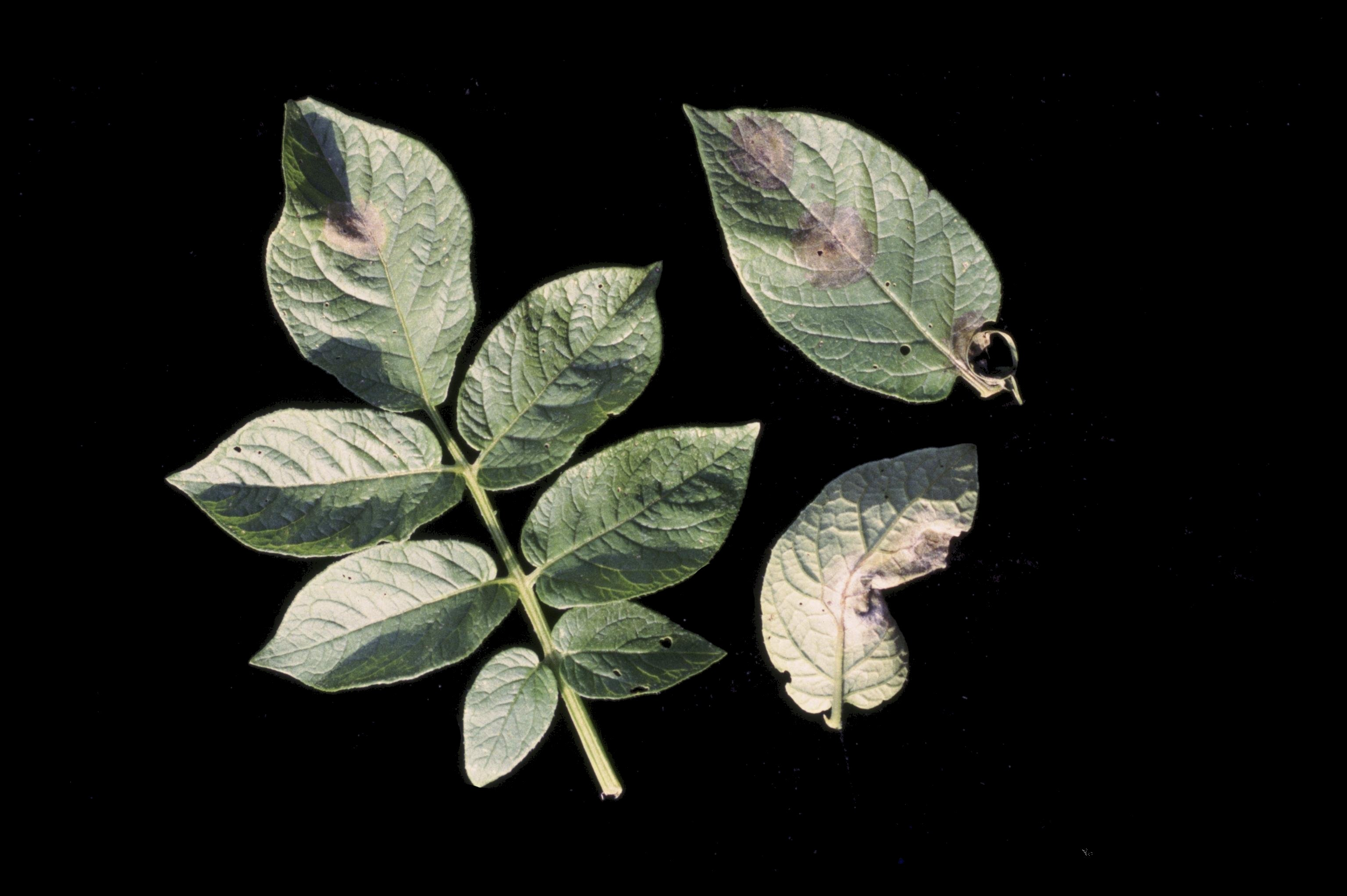 Symptoms of Phytophthora infestans (late blight) on potato leaf